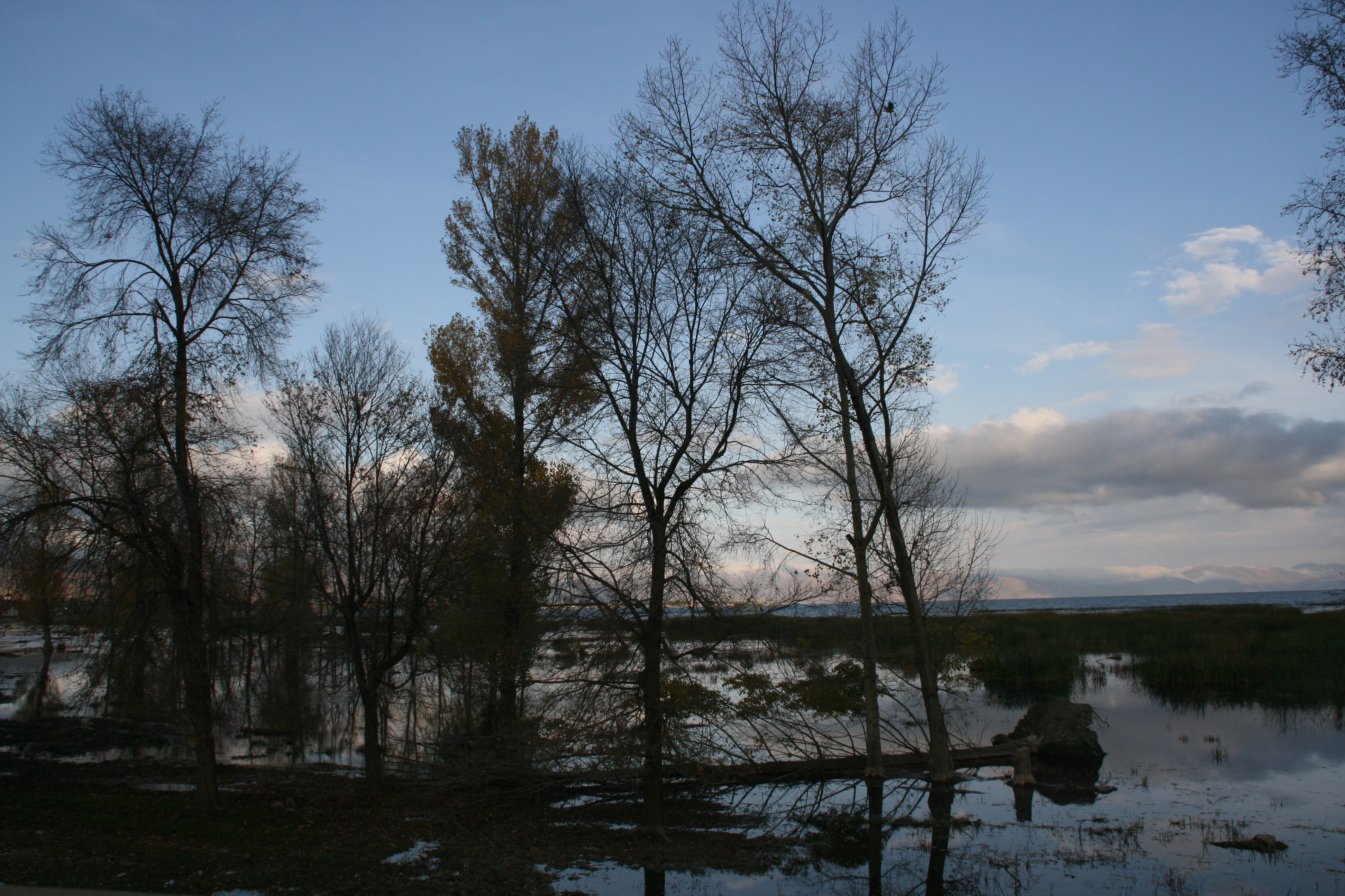 Sevan National park, Armenia